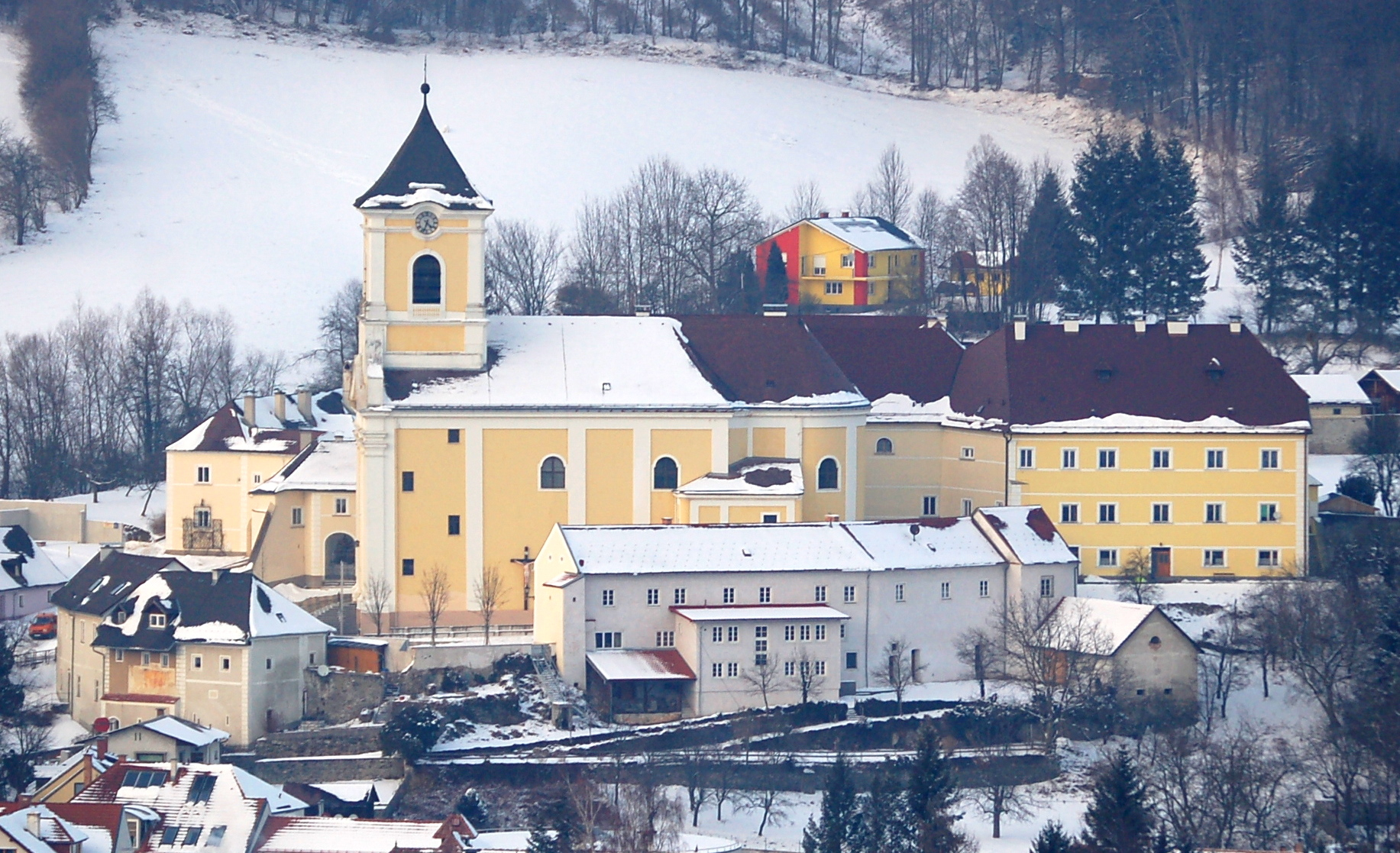 Kirchberg am Wechsel, Lower Austria: View of parish church St. Jacob the Elder, the former nuns' monastery, and in the foreground the rectory buildings.